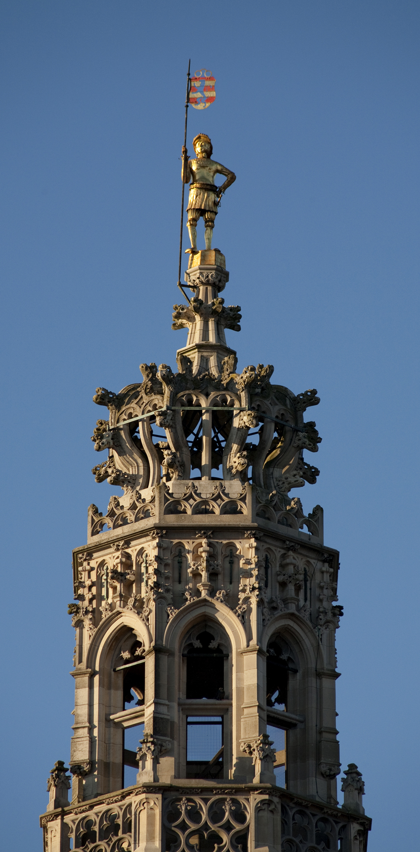 Town hall of Oudenaarde, Belgium